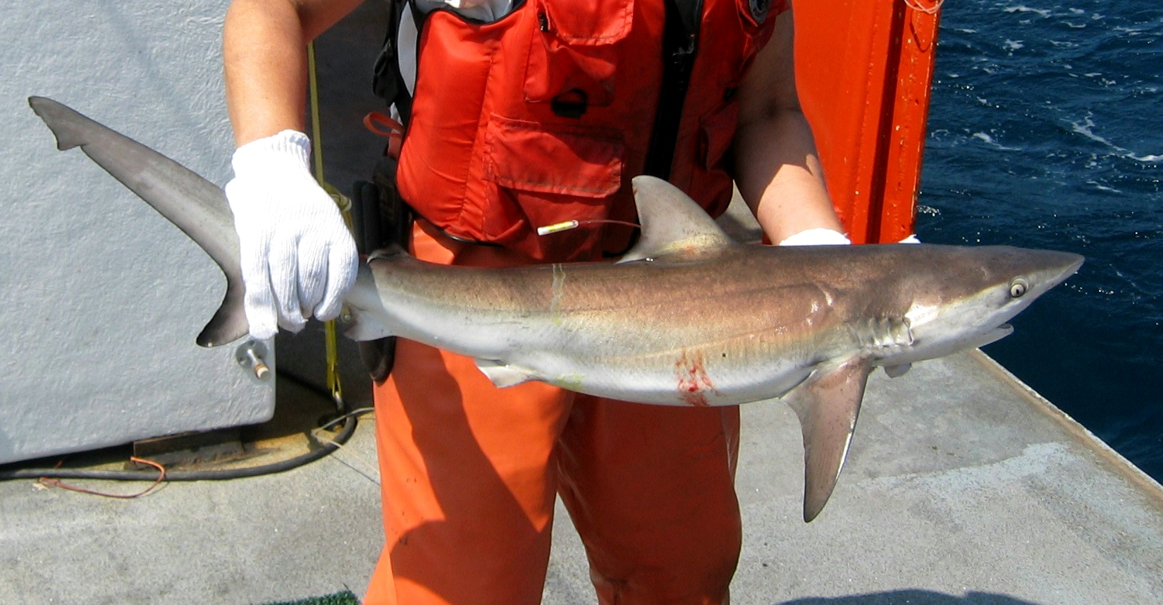 Dusky shark (Carcharhinus obscurus)